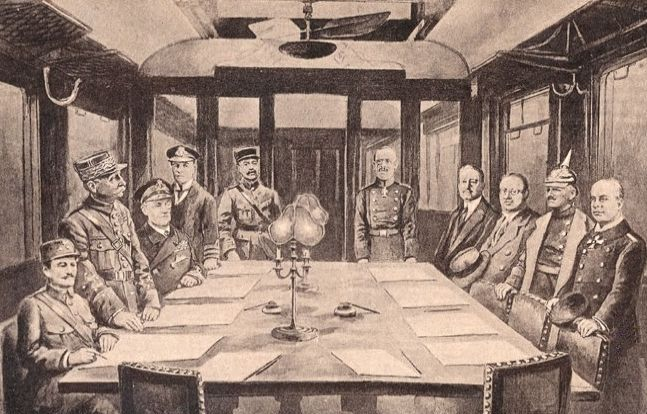 Contemporary drawing of 1918. Signing the Armistice in the Compiègne Wagon, November 11, 1918. Left to right: General Weygand, Maréchal Foch, Sir Rosslyn Wemyss, Admiral George Hope, Captain Laperche, Captain Kavalerie von Helldorff, Graf von Oberndorff, Mathias Erzberger, Major General von Winterfeld, Kapitain zur See Vanselow